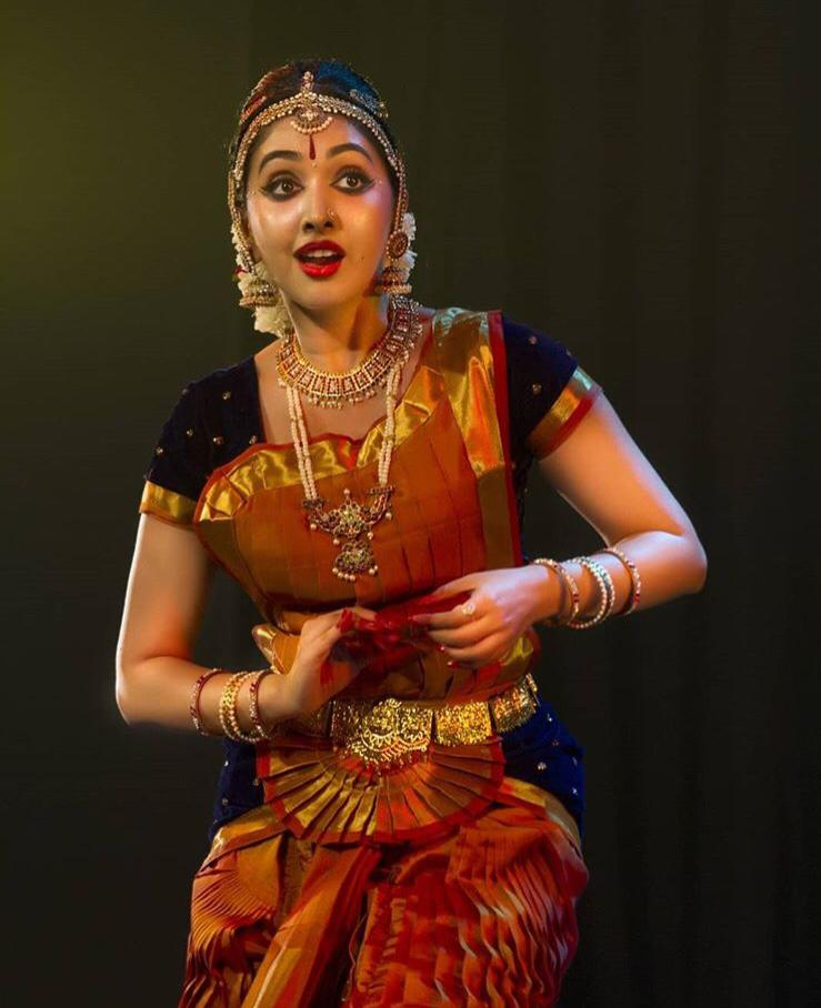 Bharatanatyam dancer Utthara Unni performing on Soorya Parampara stage.